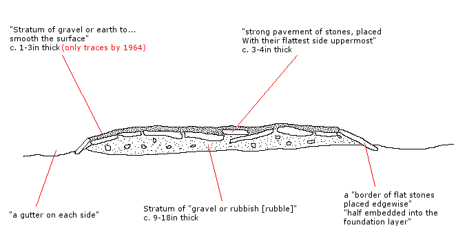 Cross-sectional diagram of Wade's causeway. Largely according to description given by Young in 1817, but with added information such as dimensions from Hayes and Rutter 1964, and a few other sources.